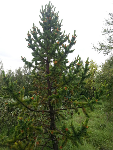 Pinus aristata